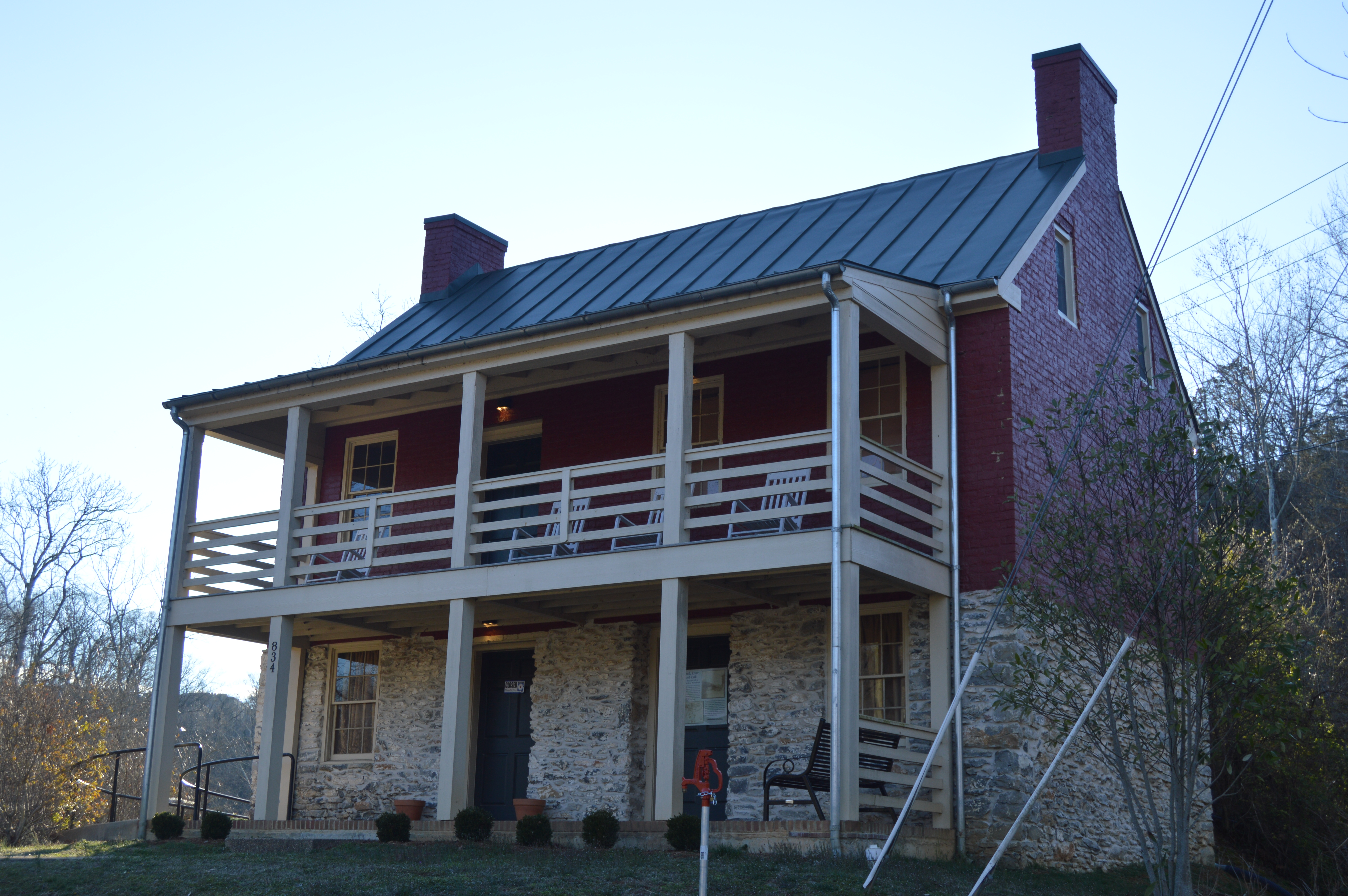 Front of the miller's house at the entrance to Jordan Point Park in Lexington, Virginia, United States. Built in 1811 and now a museum, the house is a significant component of the Jordan's Point Historic District, a historic district that is listed on the National Register of Historic Places.